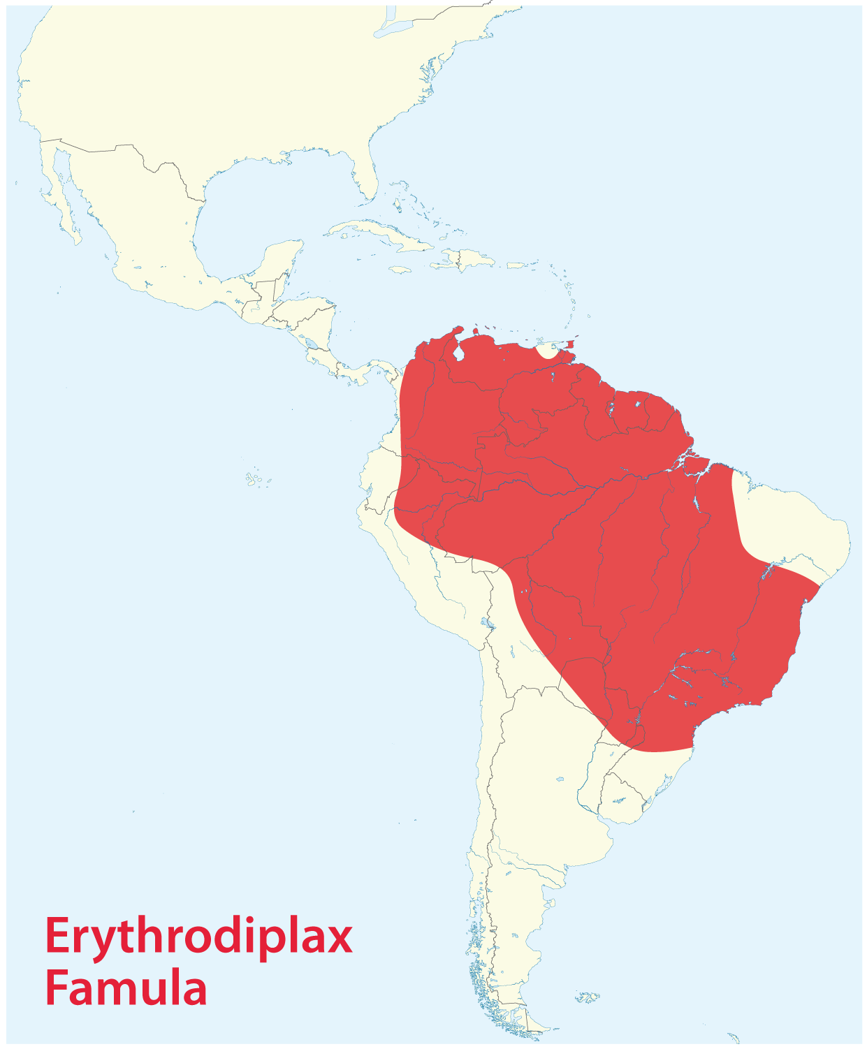 Distribution map of Erythrodiplax Famula